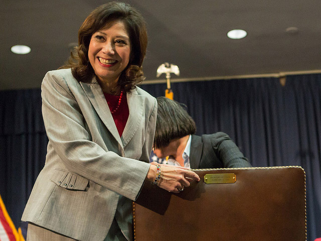 Secretary of Labor Hilda Solis at her farewell salute at the Department of Labor in Washingon, D.C. on January, 22, 2013. This is the chair she used in U.S. Cabinet meetings, with a marker attached indicating the date she took office.